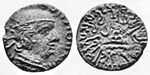 Satyadaman